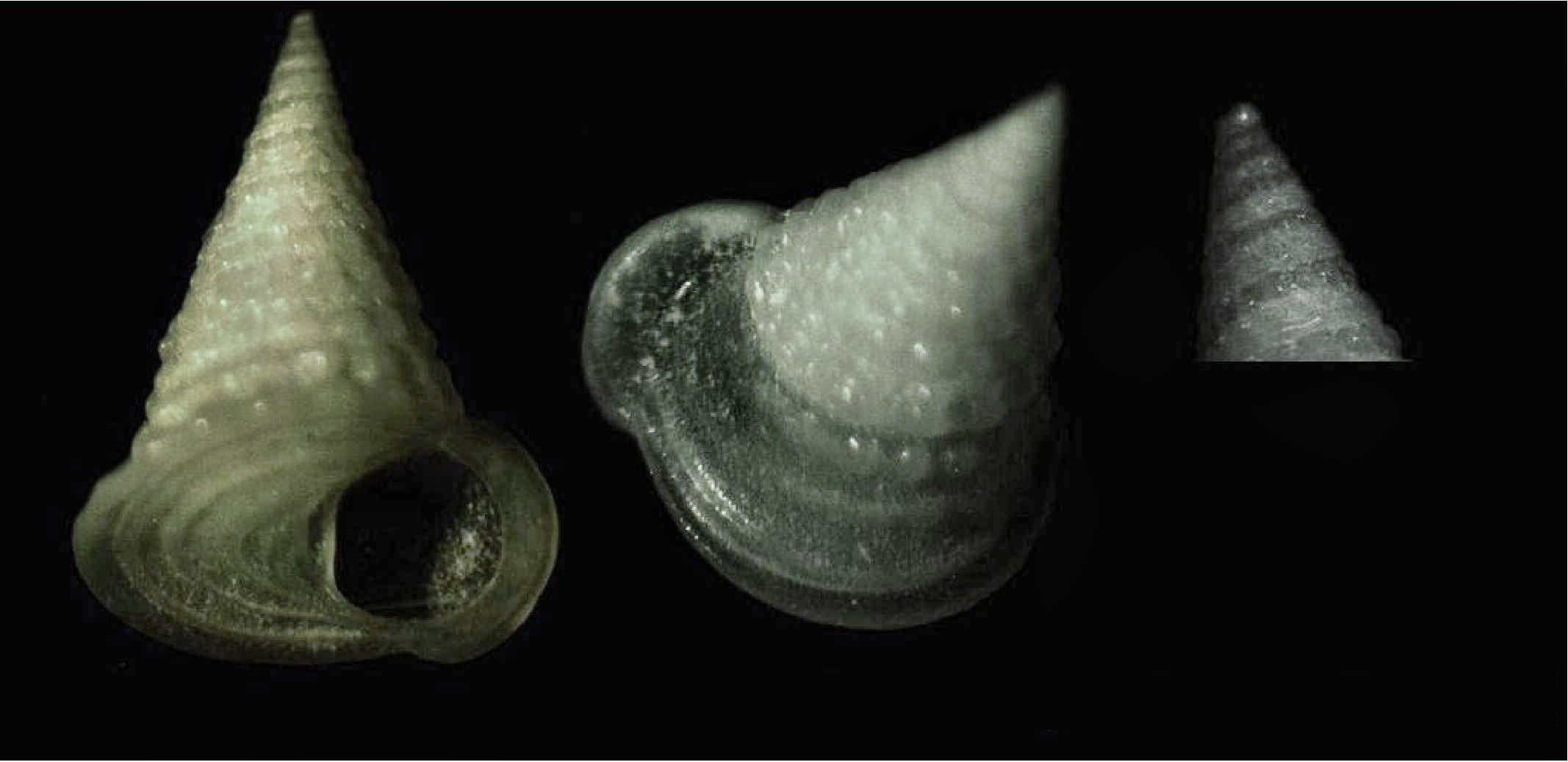 Sansonia kirkpatricki (Iredale, 1917) , a snail from the family Pickworthiidae; Maldives